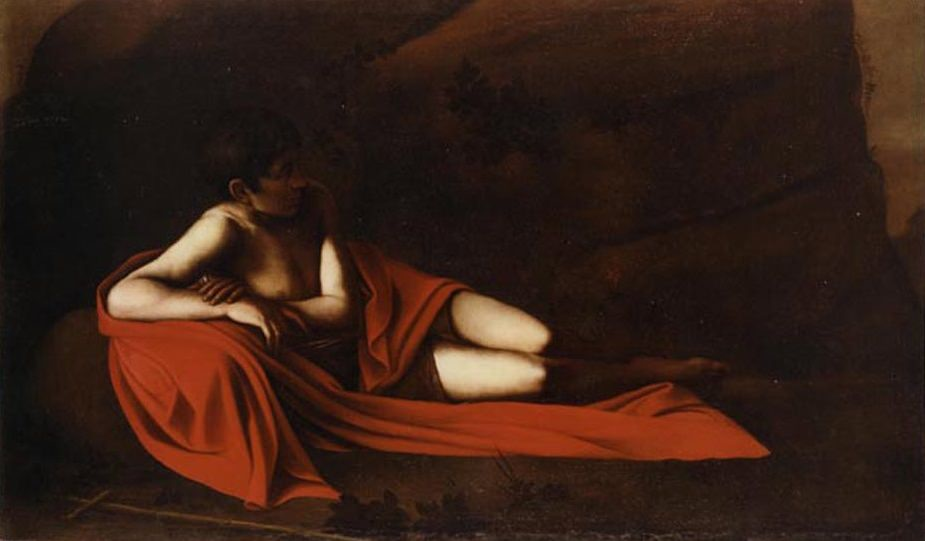 "Reclining John the Baptist", c. 1610,by Caravaggio (1571-1610). believed to be Caravaggio's last painting, is barely known by comparison to his other pieces. This is due to disputes that arose after Caravaggio's death regarding the attribution of the piece as a work of the great master. The painting was discovered in Argentina; it is now in a private collection in Munich.